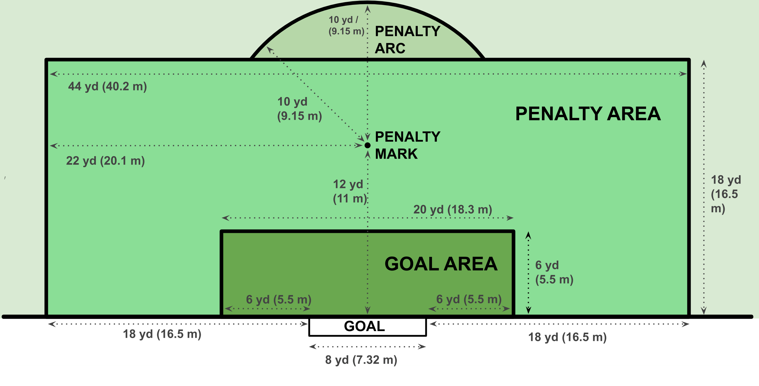 Diagram of the goal area and penalty area in association football with detailed measurements.